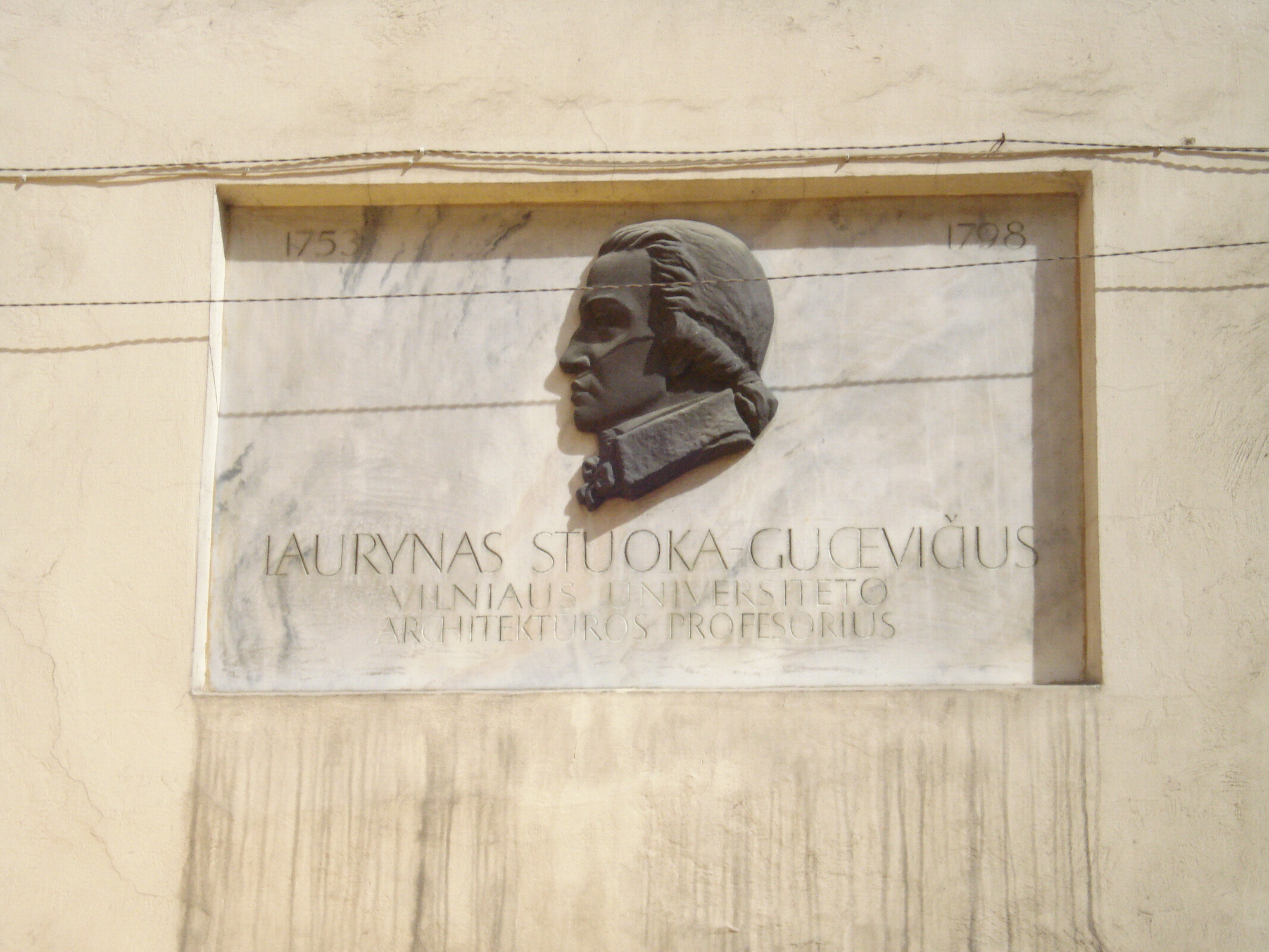 architect Wawrzyniec Gucewicz / Laurynas Gucevičius (1753–1798) memorial tablet in the Stuoka-Gucevičius Courtyard (Vilnius University)